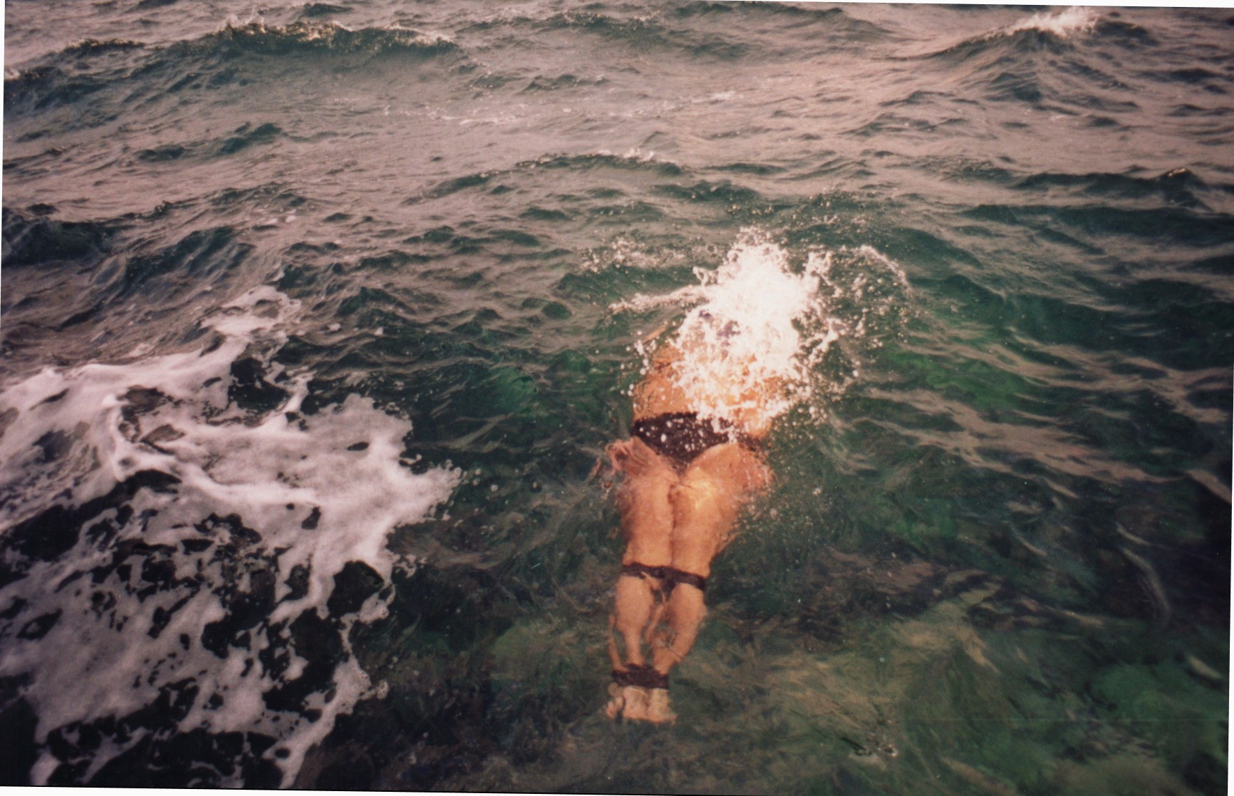 Henry Kuprashvili. strait Dardanelles. 2002.08.30